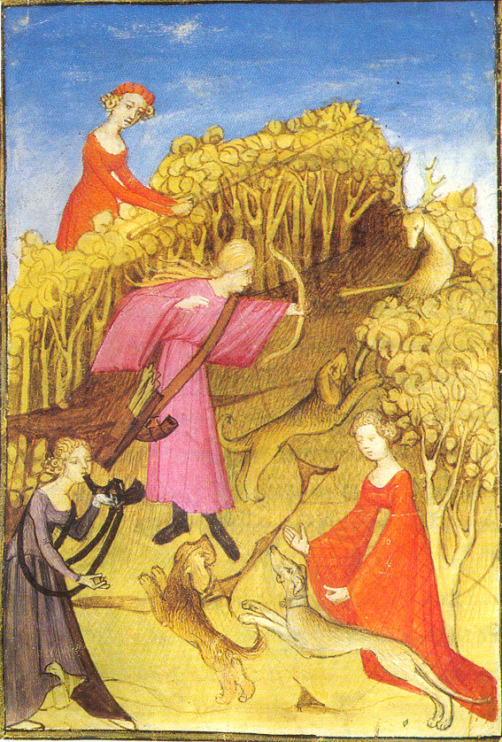 Medieval hunting: the women in the middle is shooting with a bow and arrow, the lady on the left is using a rod to drive game toward the huntress.